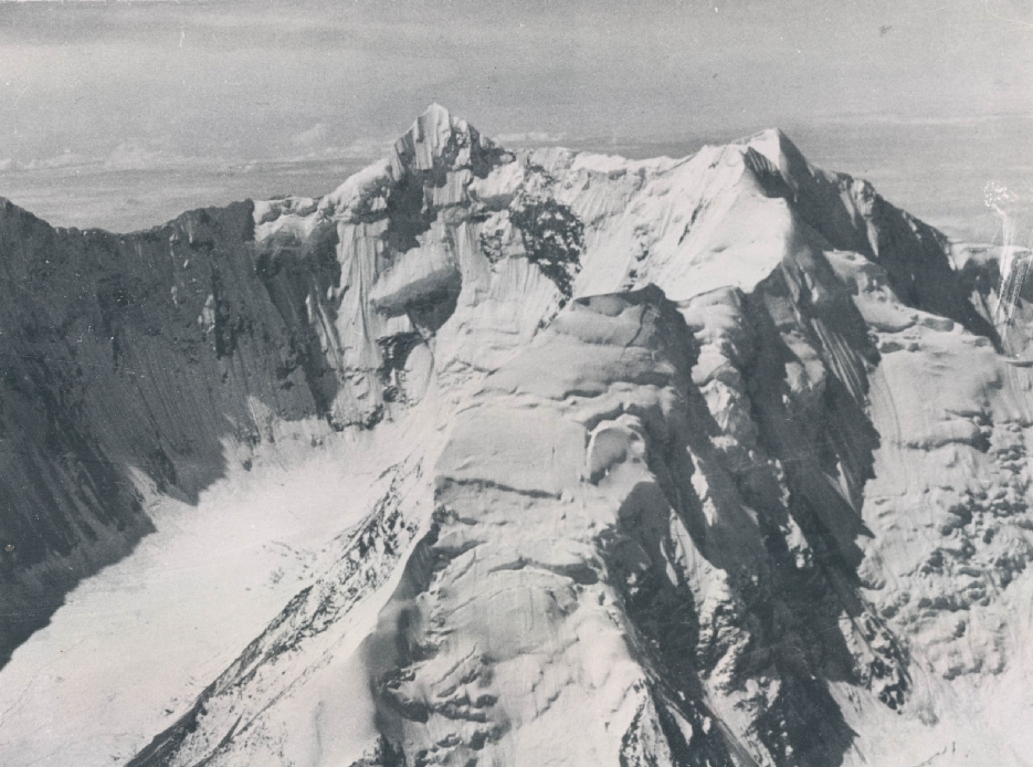 1936 photo of Nanda Devi